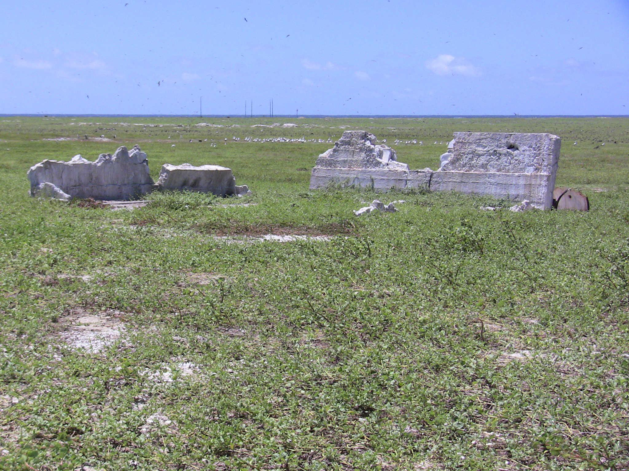 Remains of earlier settlement "Meyerton" on Baker Island, Pacific Ocean